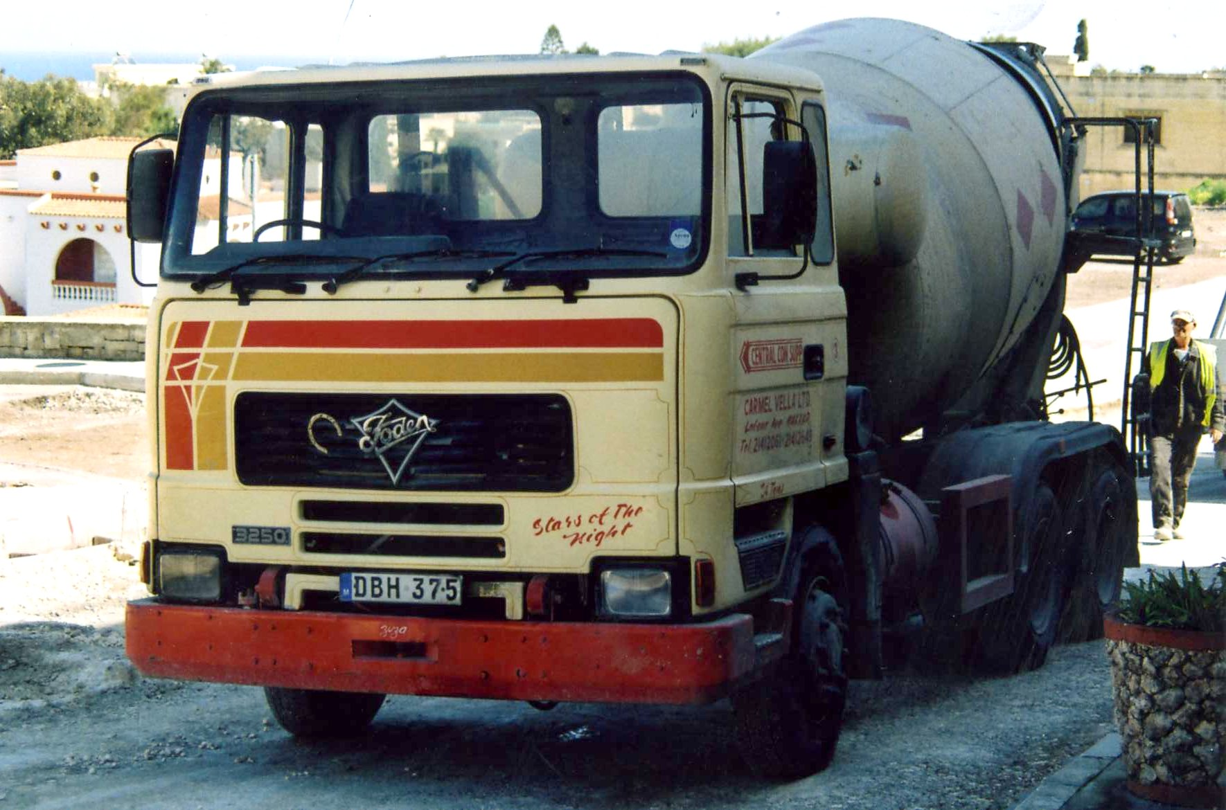 Resurfacing of the main road into Mellieha. C.Vella of Naxxar, the contractor had a wonderful selection of vehicles involved in the project. Pioneer Concrete would have operated vehicles like this in a green livery at one time in London.